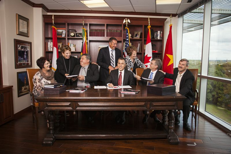 photo of signing